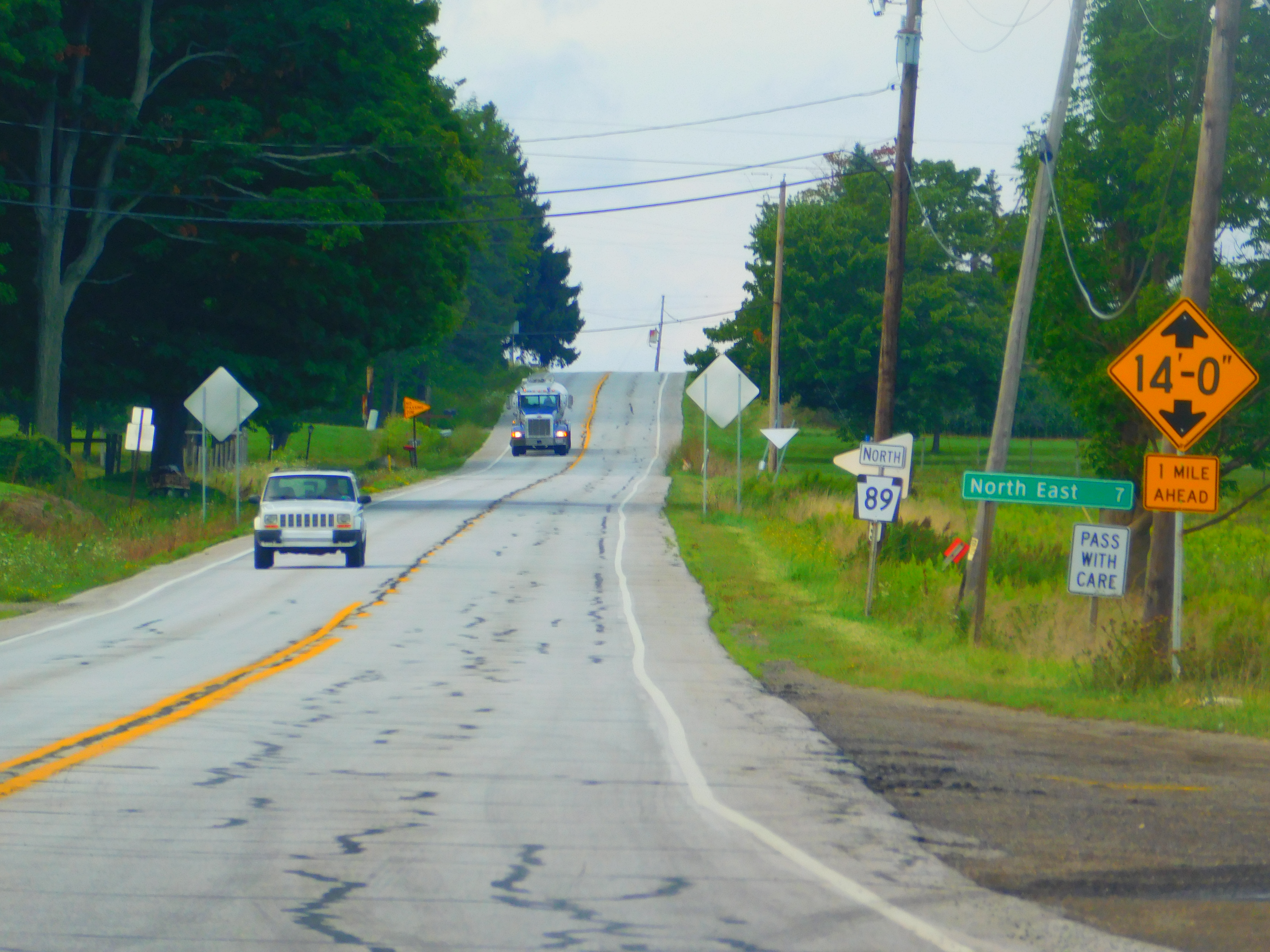 PA 89 northbound from the junction with PA 430 in Greenfield Township, Erie County, Pennsylvania.